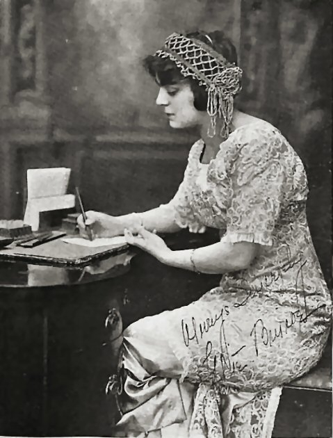 Lottie Briscoe in The Beloved Adventurer (1914)